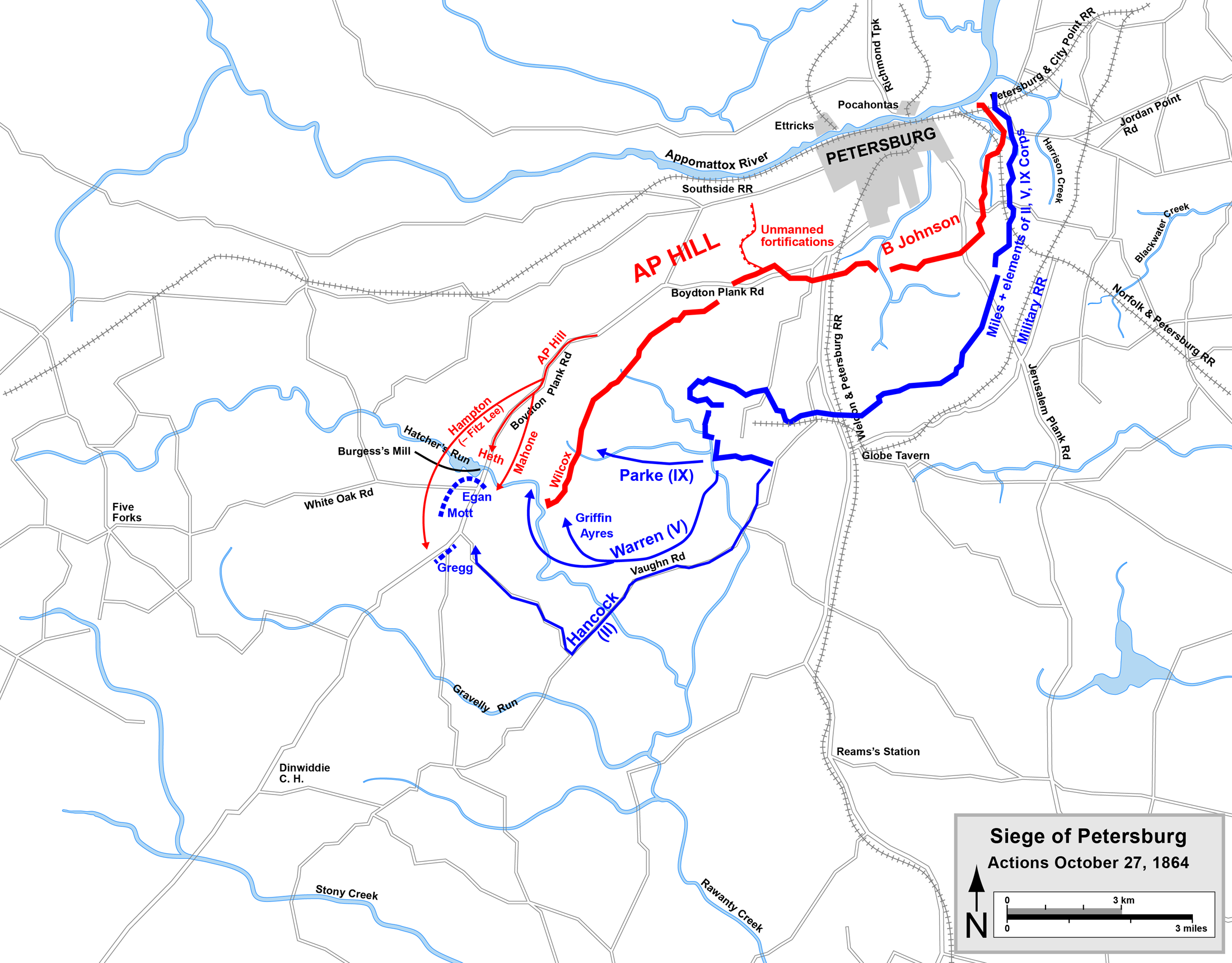 Map of the Siege of Petersburg of the American Civil War, actions on October 27, 1864